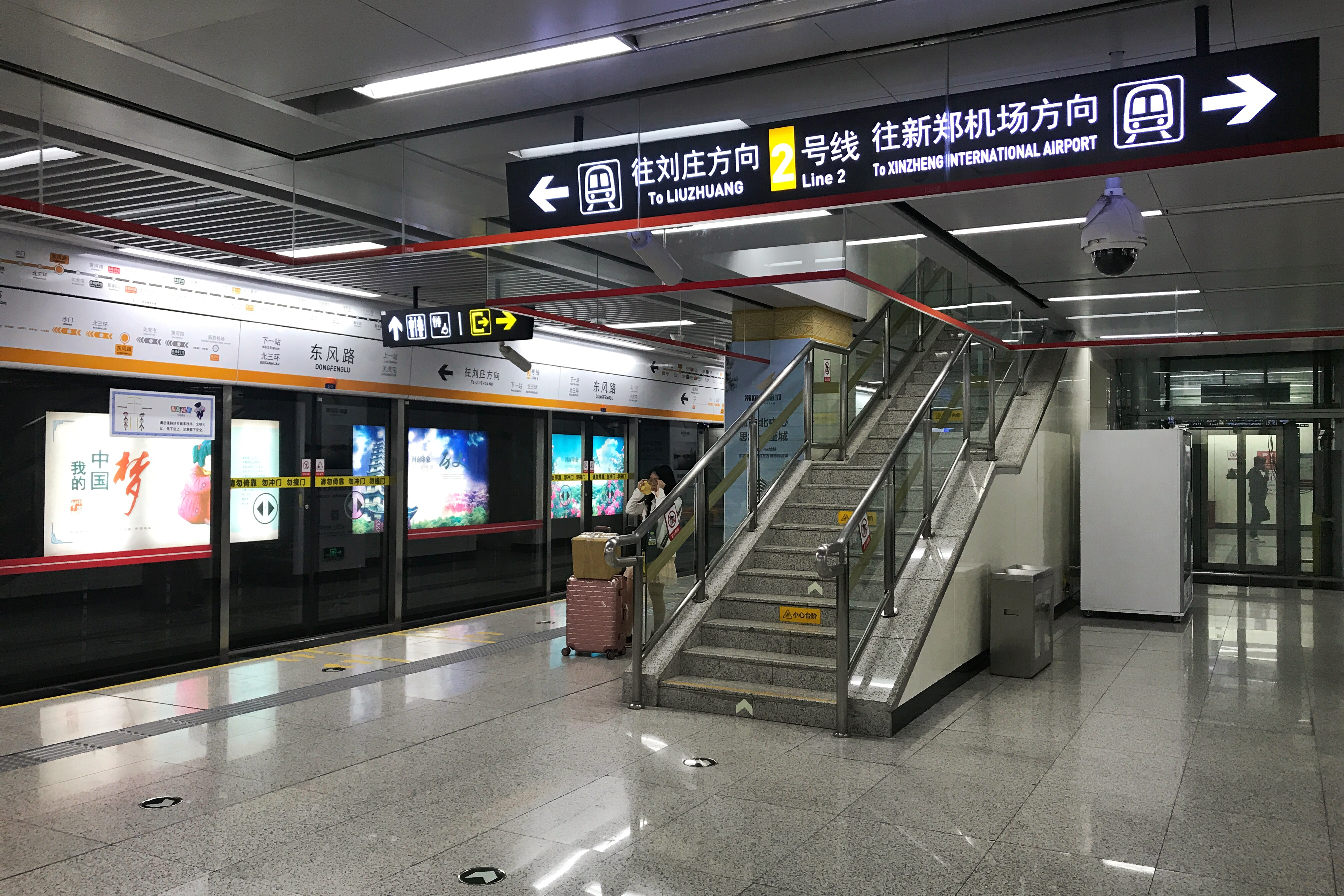 Dongfenglu station of Zhengzhou Metro Line 2